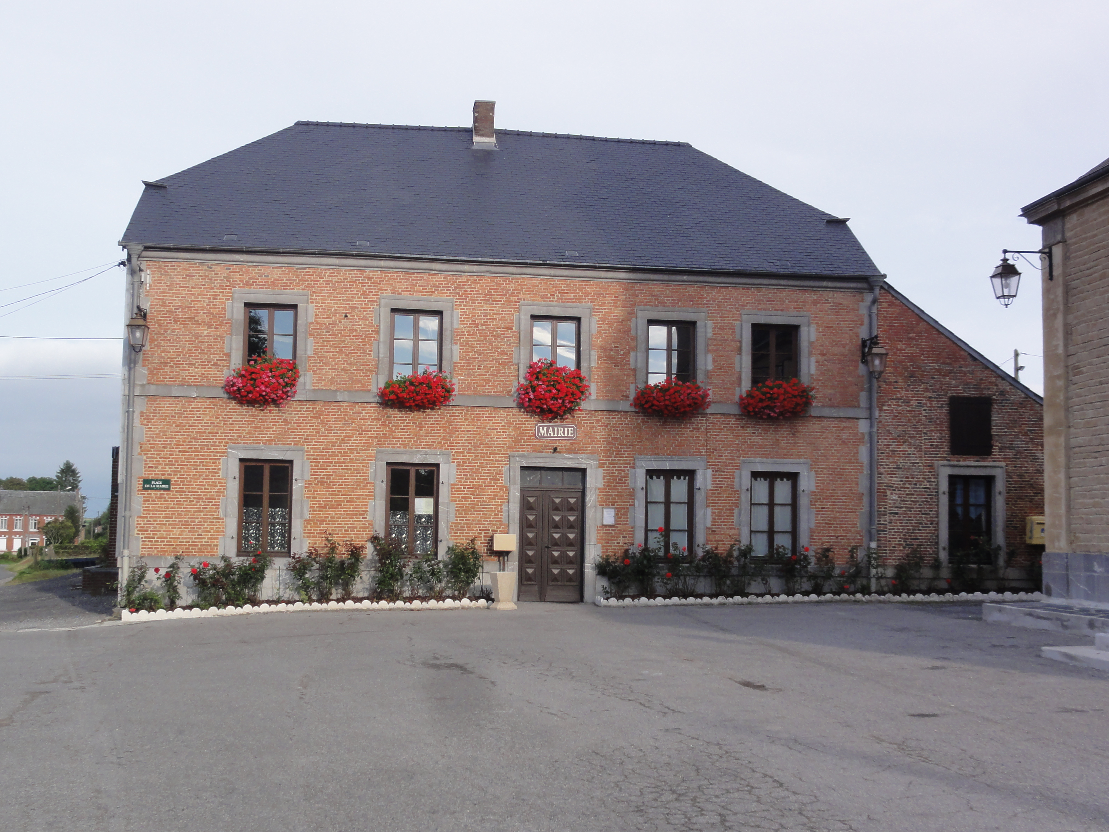 Taillette (Ardennes) mairie